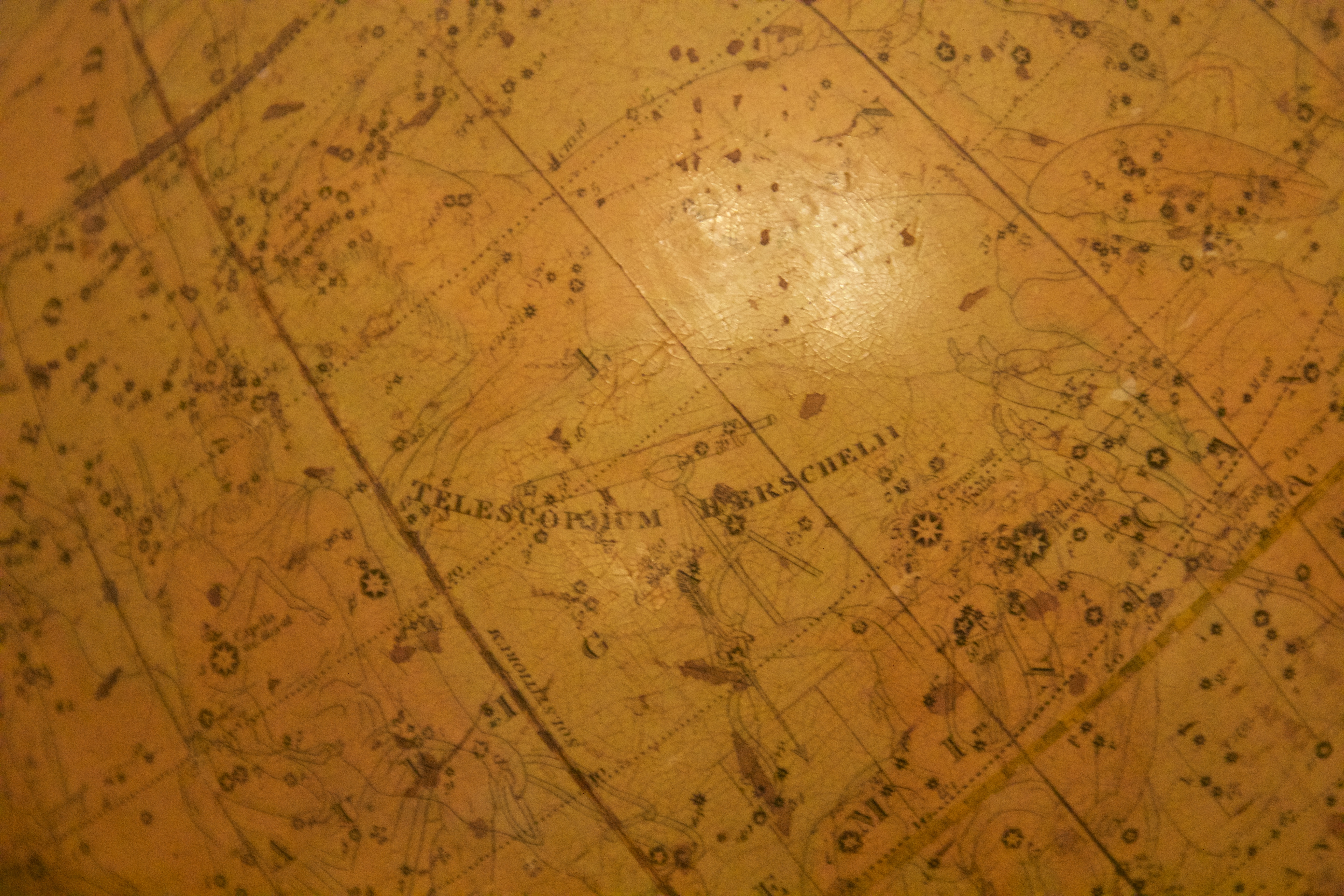 "Celestial globe by George Smith; c. 1810. Celestial globes showing the constellations, first became popular in the 16th century. This particular globe, by George Smith is unique because it shows the Herschel constellation, telescopium Herschelii, depicted as a telescope." At the William Herschel Museum, Bath.